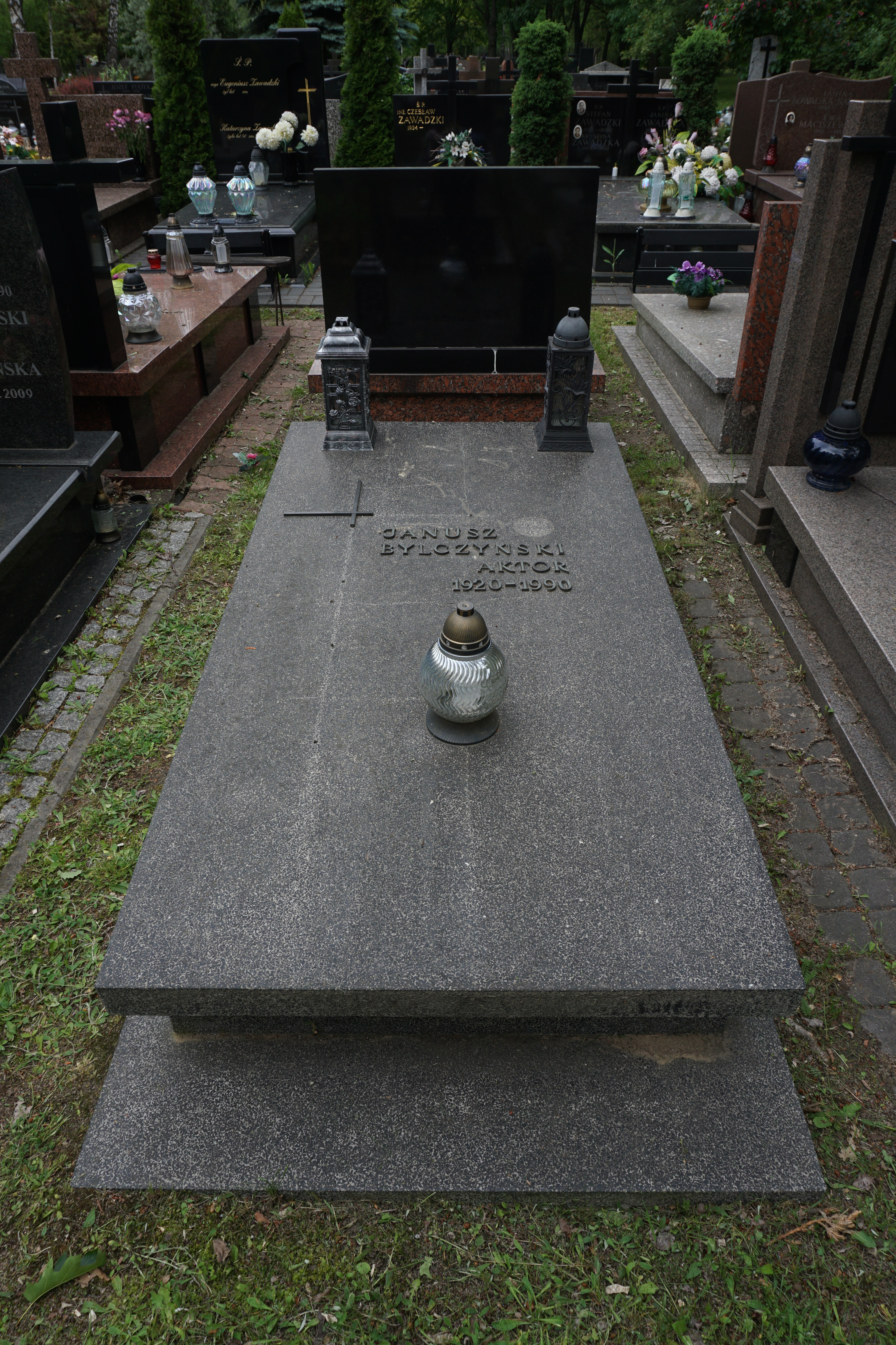 The grave of Janusz Bylczyński at the North Municipal Cemetery in Warsaw (section E-VI-9, row 10, grave 5)